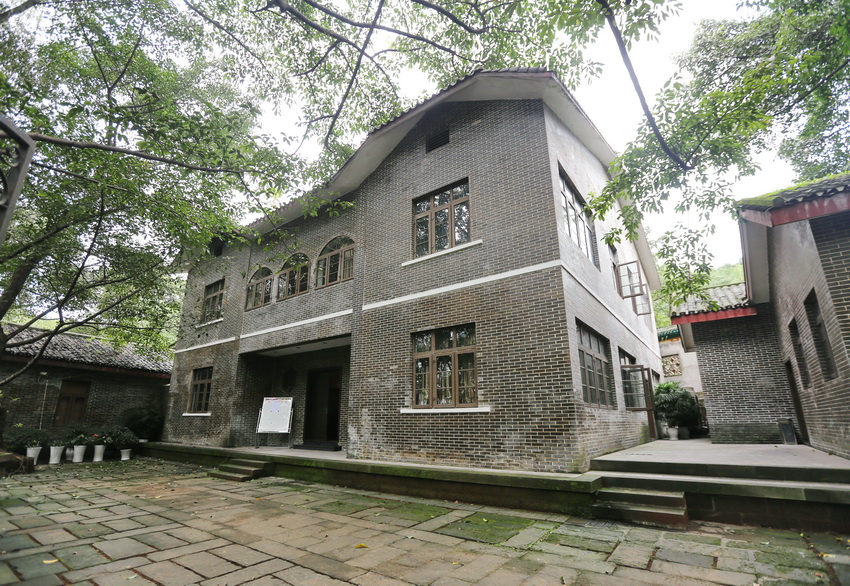 Site of Australia legation